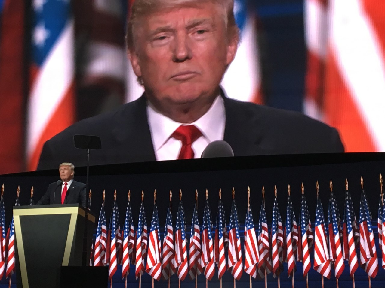 Donald Trump 2016 RNC speech